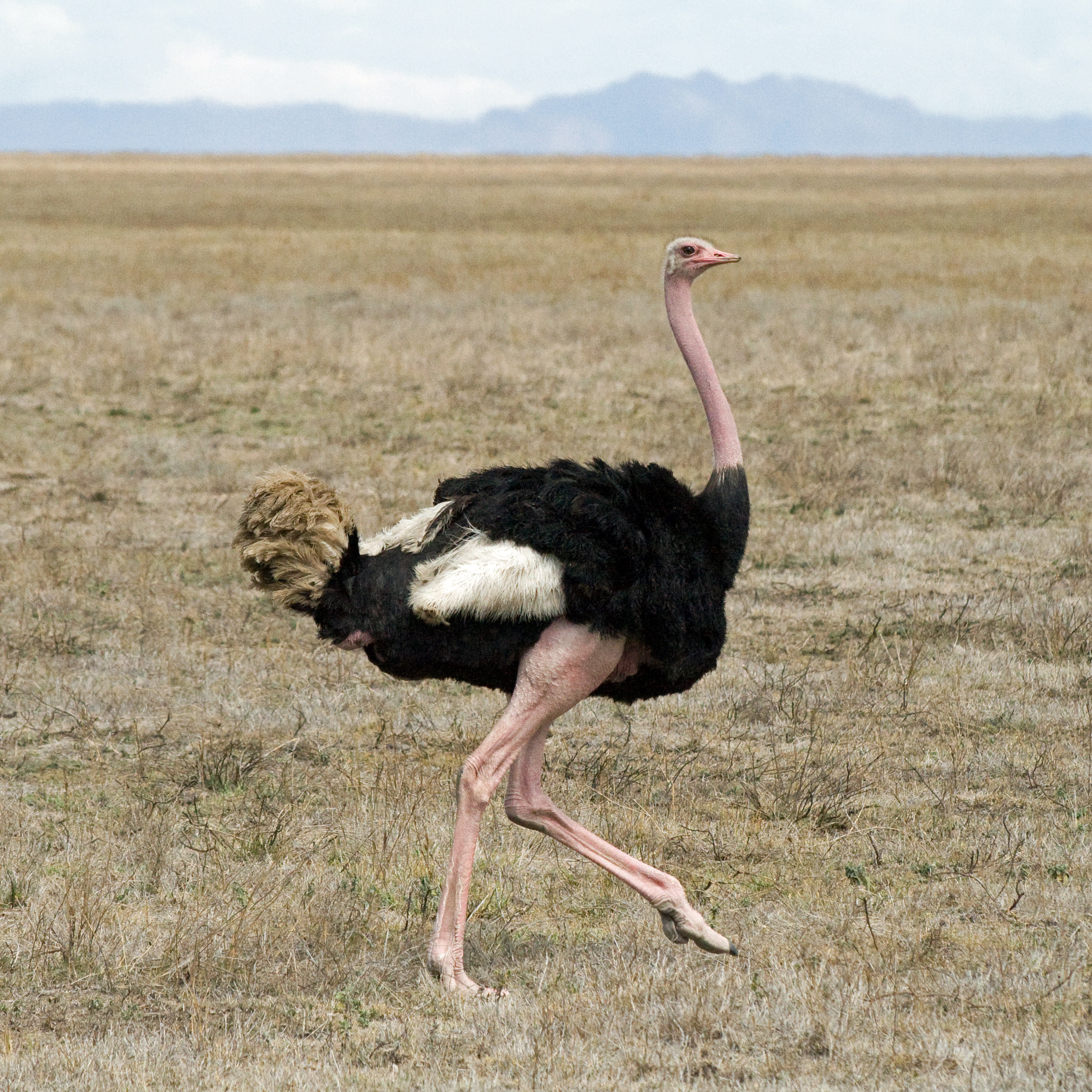 Ostrich (Struthio camelus), Serengeti National Park, Tanzania (This photo by mistake taken with IS0 1600 setting). The original has been modified by cropping and adjustment of the color, contrast and brightness.